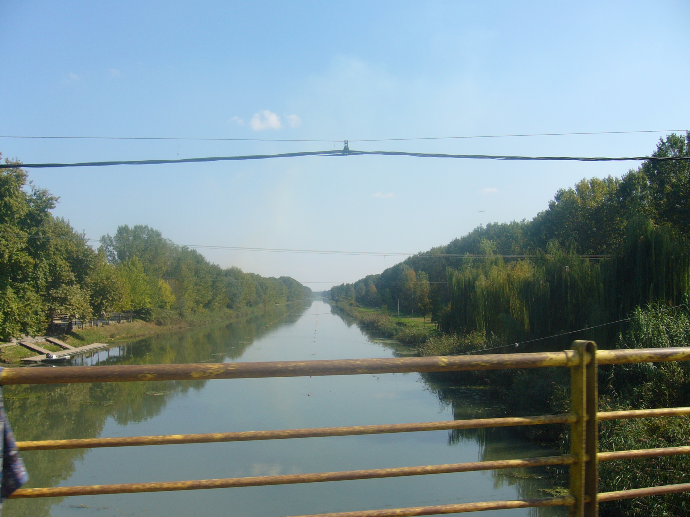 River of Loudias near Giannitsa, Pella prefecture, Greece.